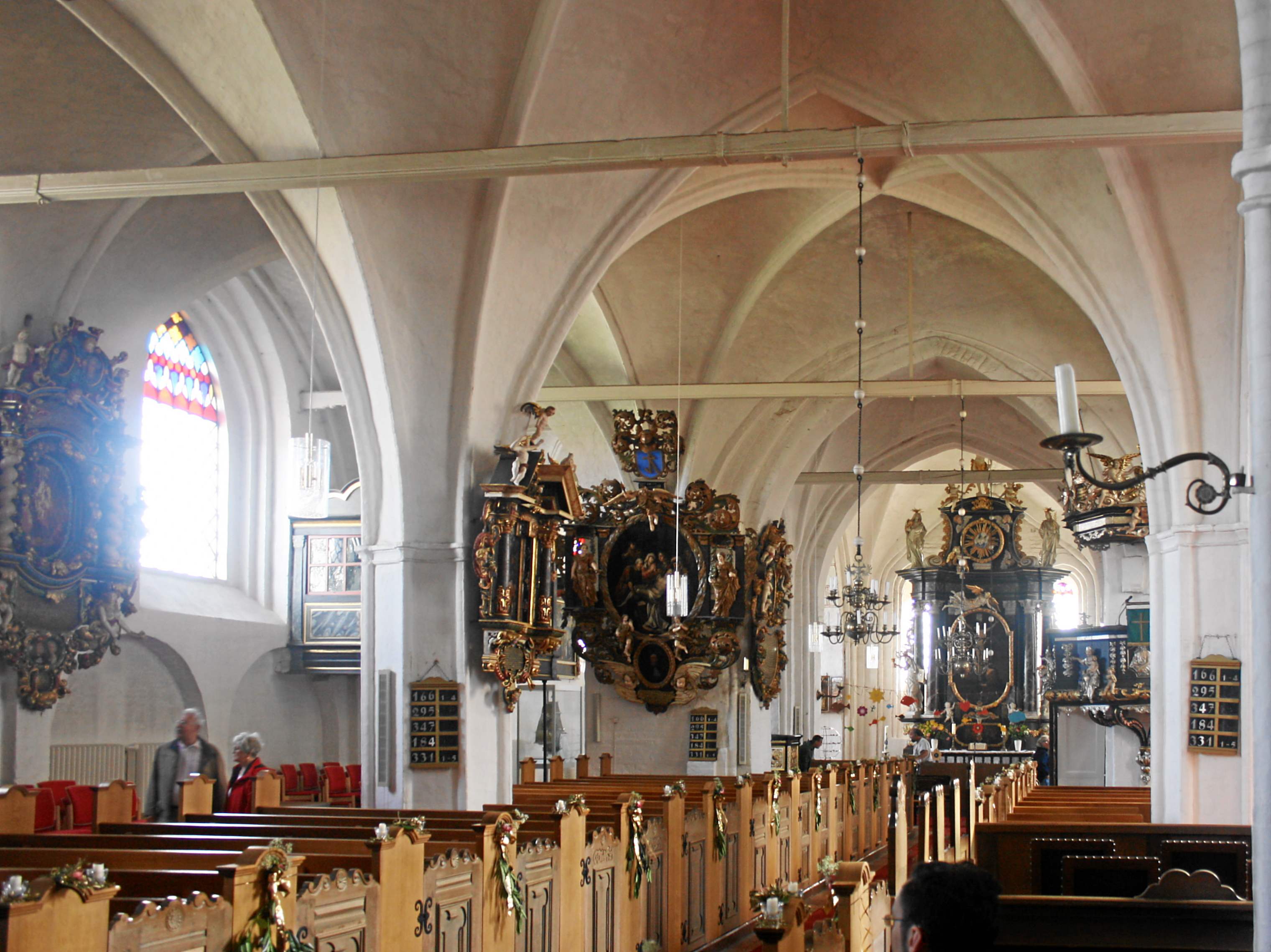 Fehmarn, Germany. Protestant parish church Saint Peter, nave towards East.